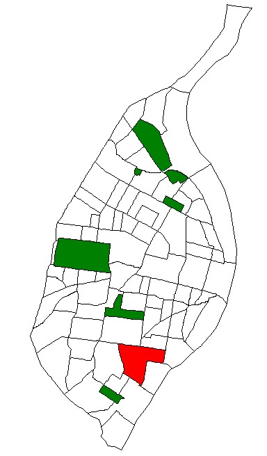 Map of St. Louis Nieghborhood #16